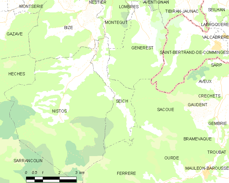 Map of French municipality